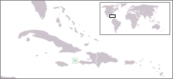 Location of Navassa Island in the Caribbean Sea